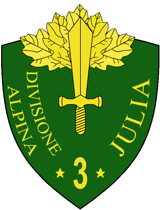 3rd Italian Alpine Division "Julia" Coat of Arms (WWII)